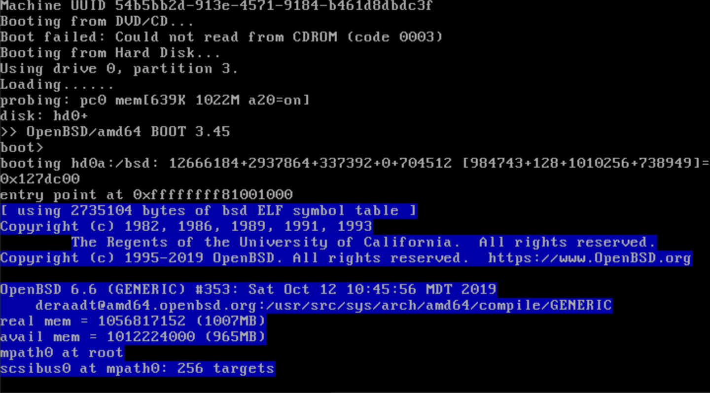 OpenBSD 6.6 during startup